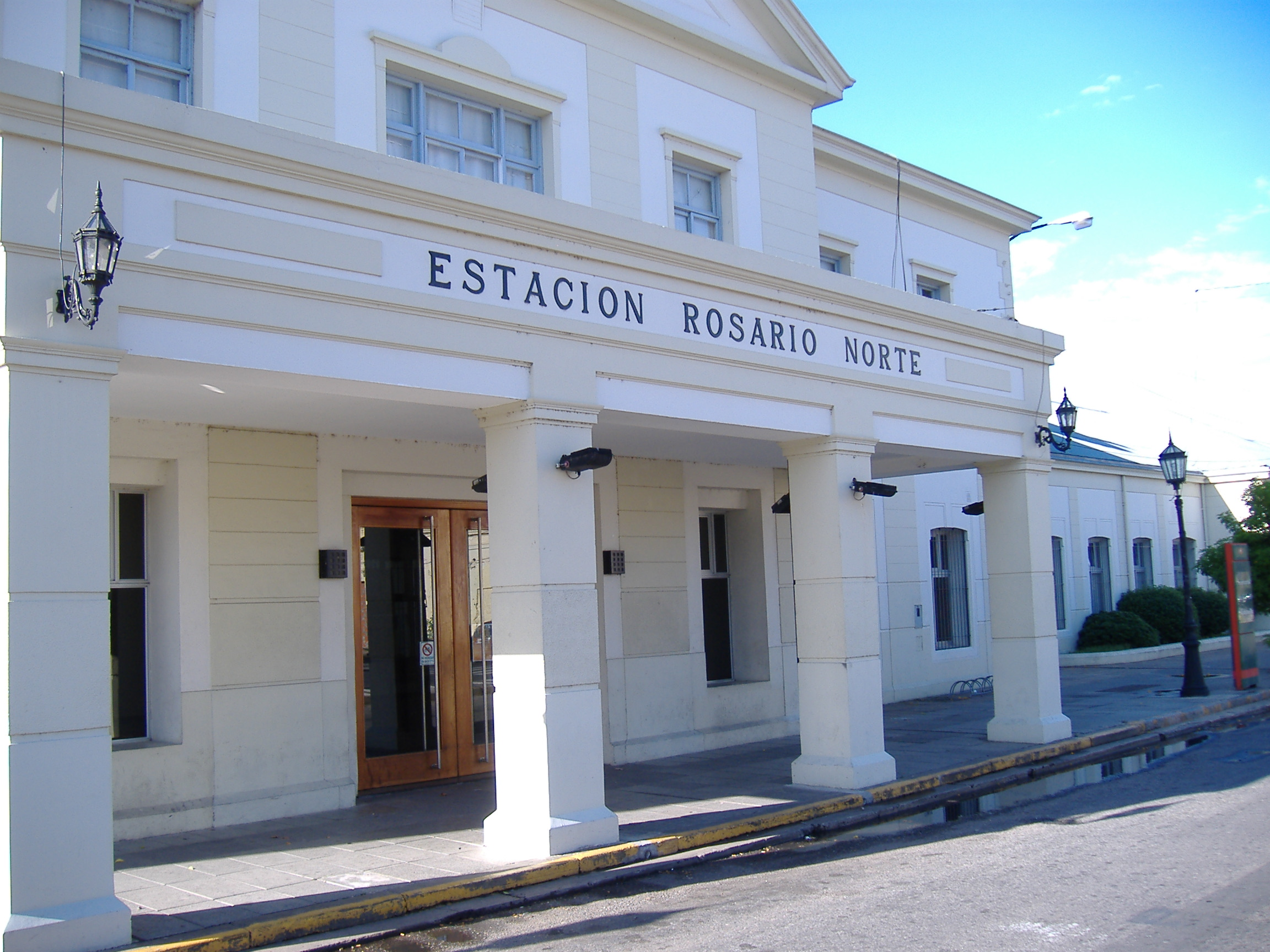 Estación Rosario Norte (North Rosario Station), a train station in Rosario, Argentina. This is an old station that has only recently been restored and re-functionalized. It is located in the north-center part of the city, in the barrio of Pichincha. This picture was taken by Pablo D. Flores on 11 March 2006.